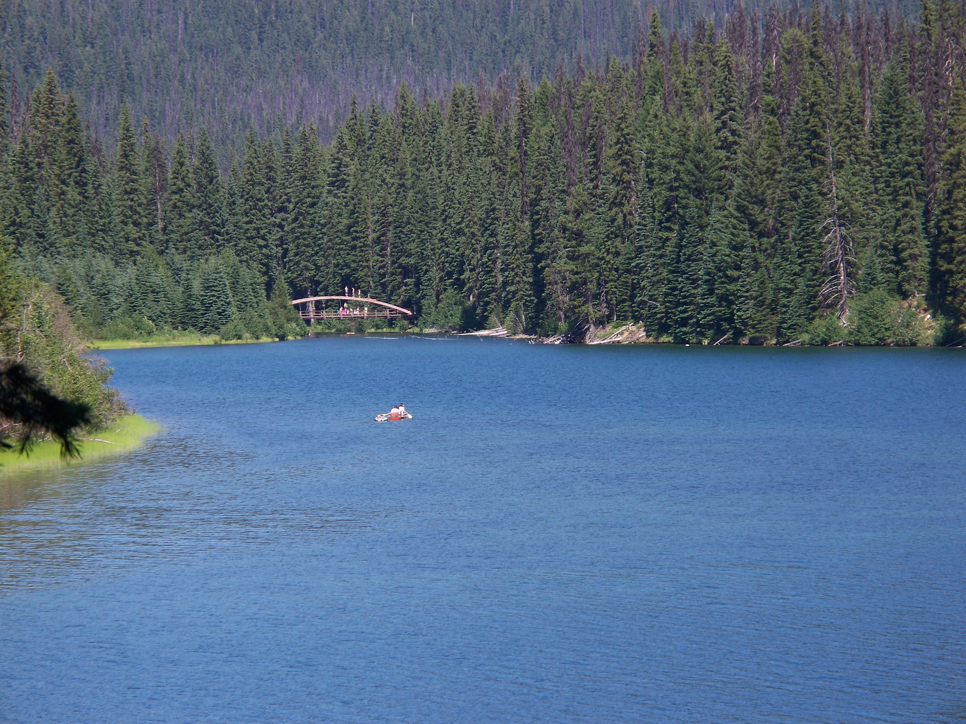 A canoe on Lightning Lake